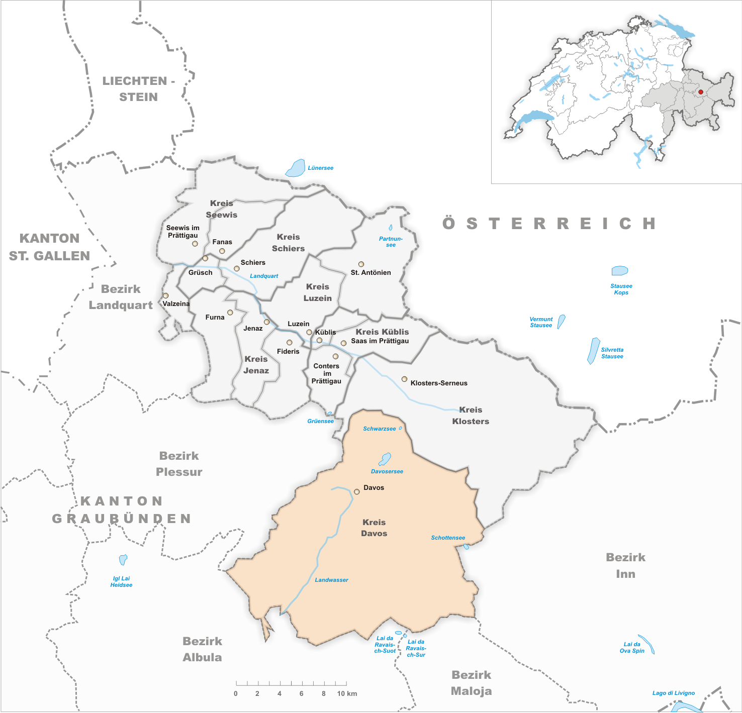 Municipality Davos